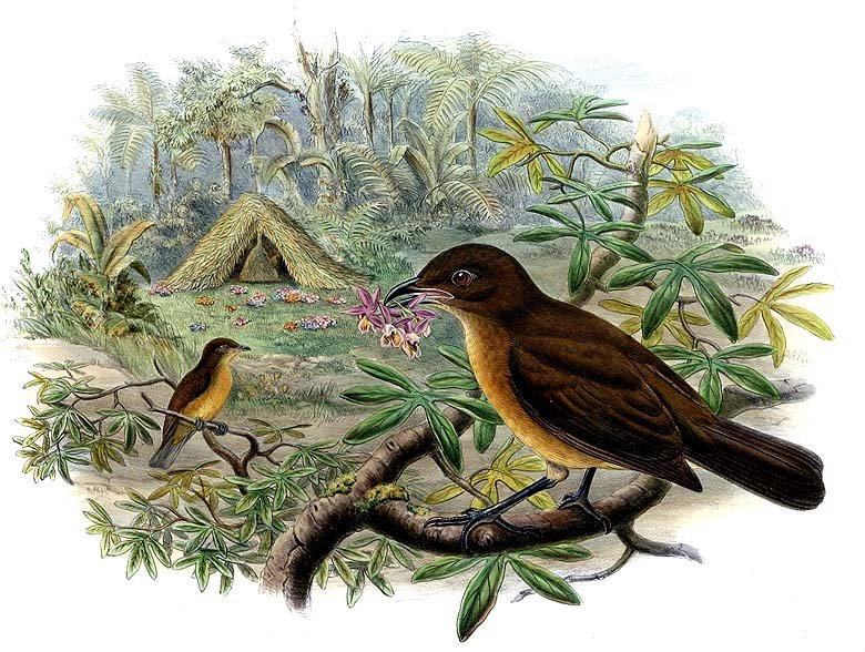 Vogelkop Bowerbird (Amblyornis inornata)